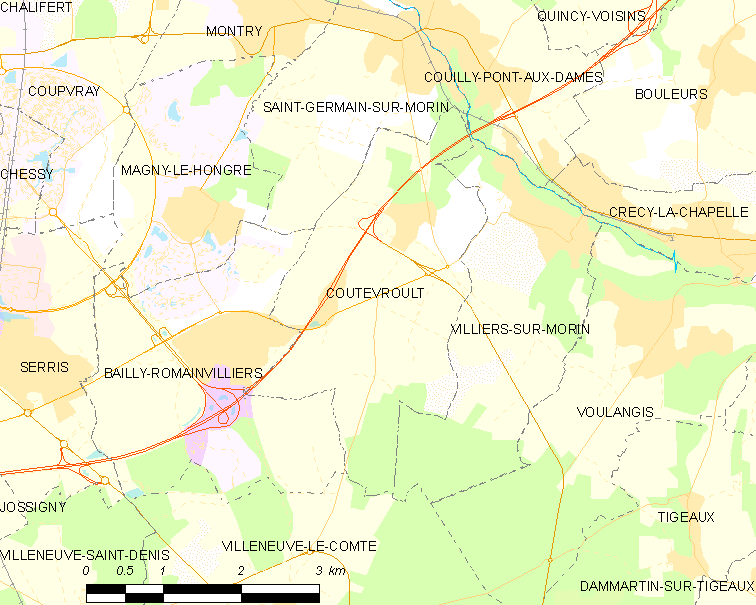 Map of French municipality Coutevroult